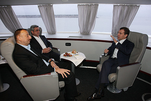 ST PETERSBURG. With President of Azerbaijan Ilham Aliyev and President of Armenia Serzh Sargsyan.